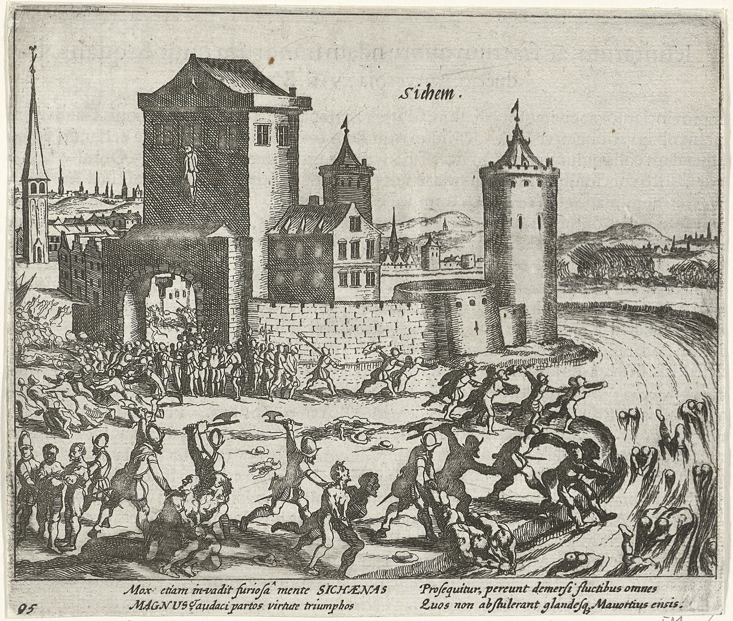 Conquest and punishment of Zichem by troops of Parma, 21 feb 1978, outside the city civilisans are being killed and dumped in the water, in the background the city of Diest